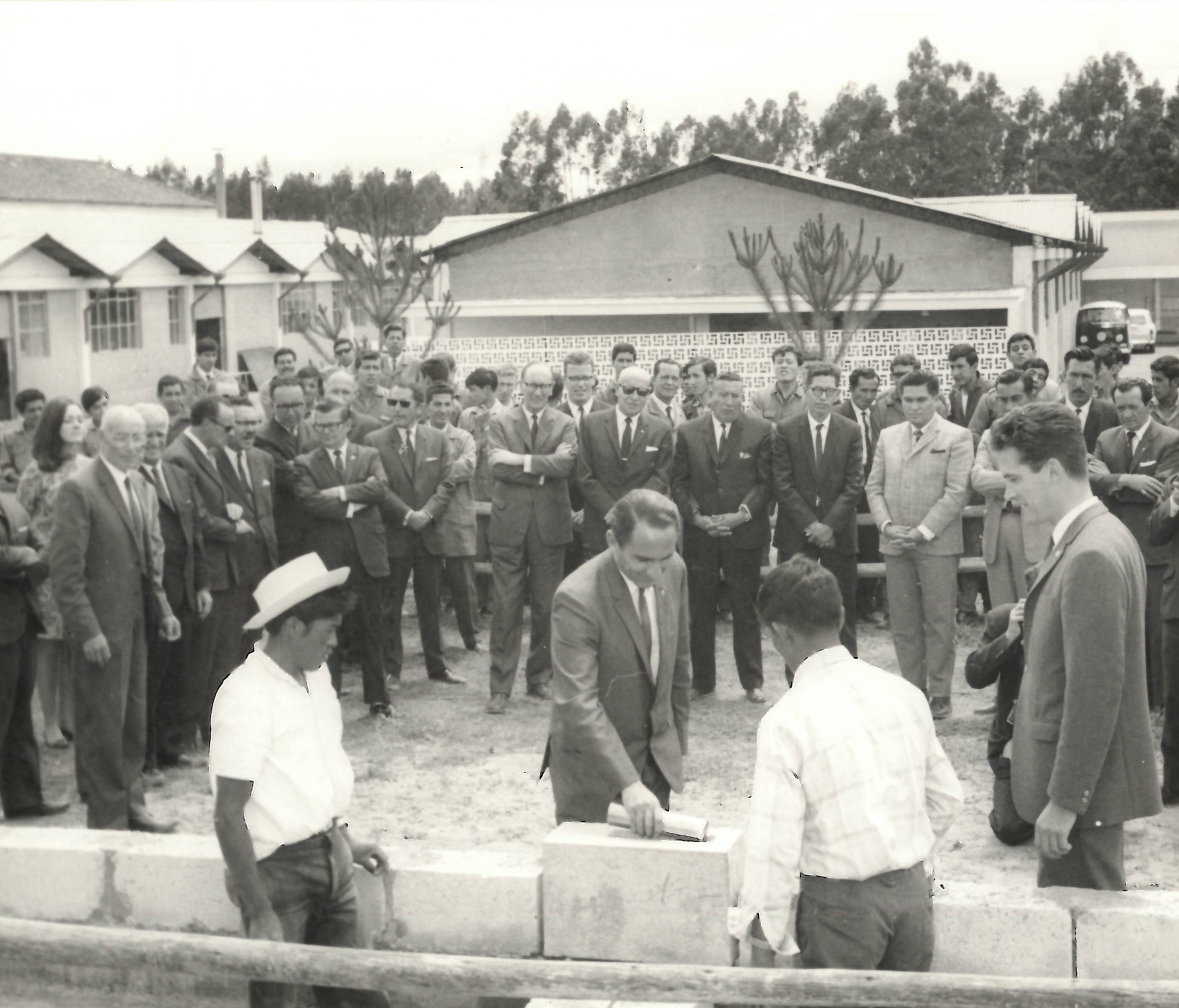 Historical file of the secap